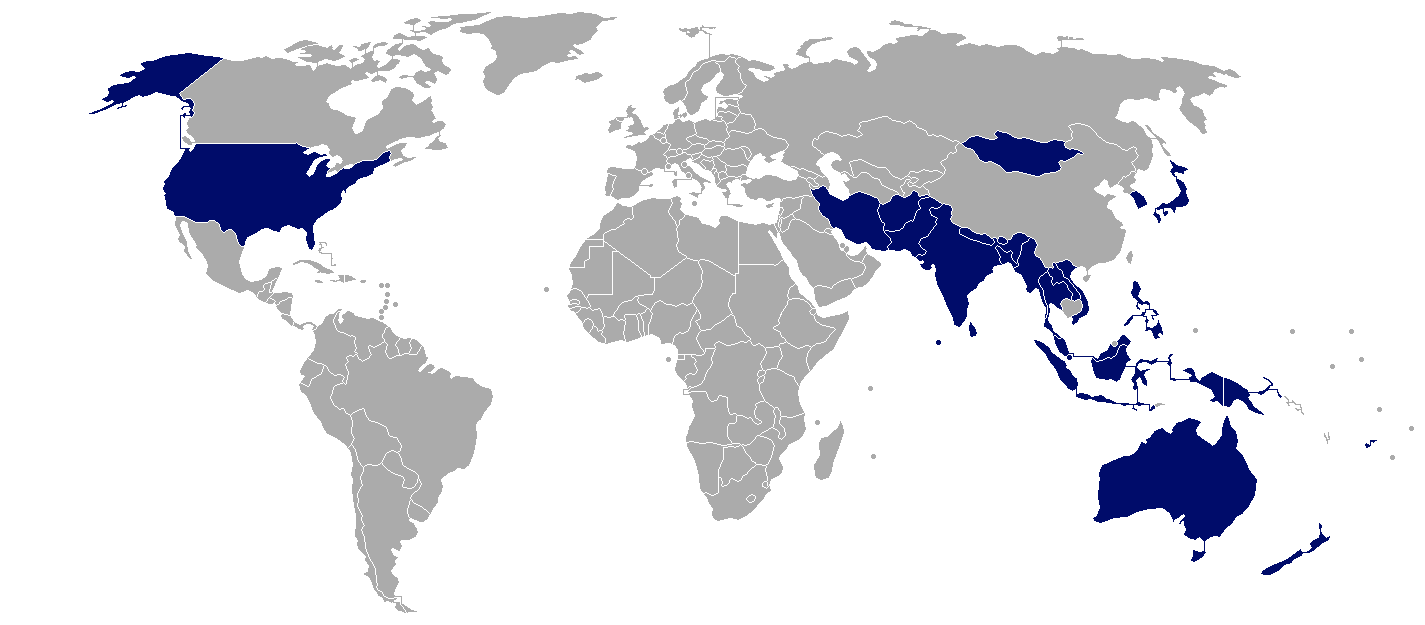 Members of Colombo Plan.